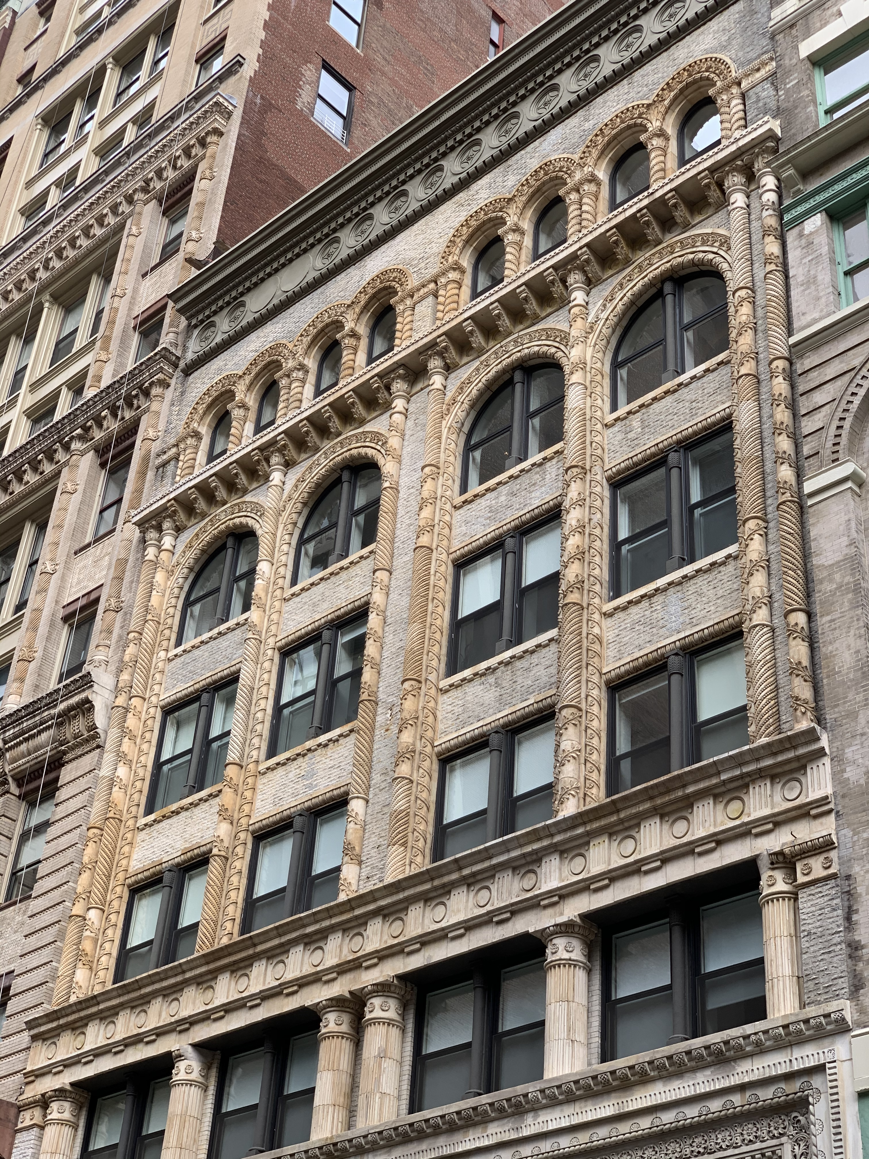 The terracotta facade of the upper floors of 9-11 East 16th Street, designed by Louis Korn and built between 1895-1896.